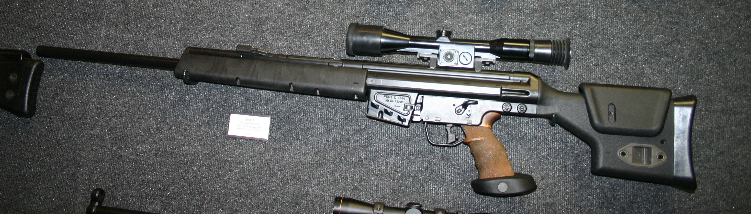 PSG-1 on display